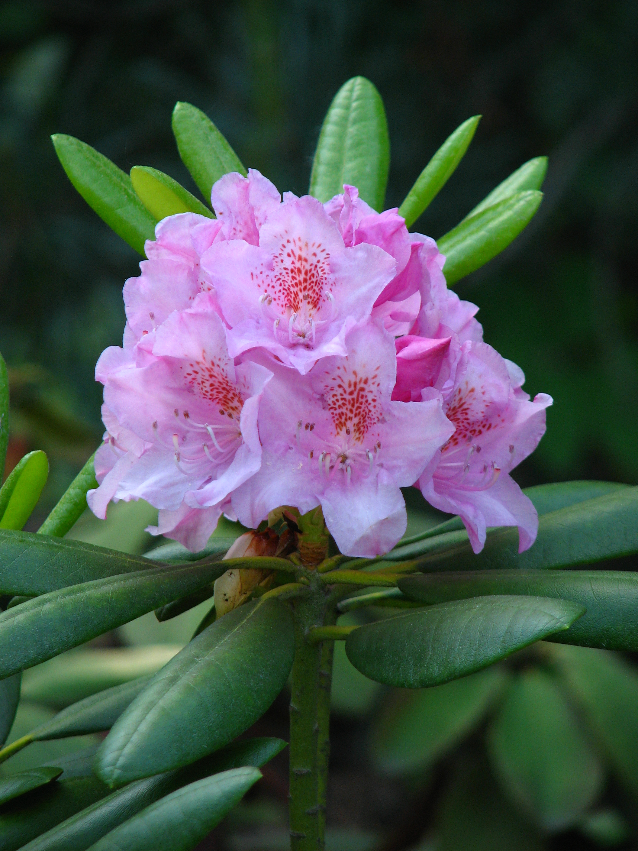 Rhododendron catawbiense in the botanical garden "Aptekarsky Ogorod'. Moscow.